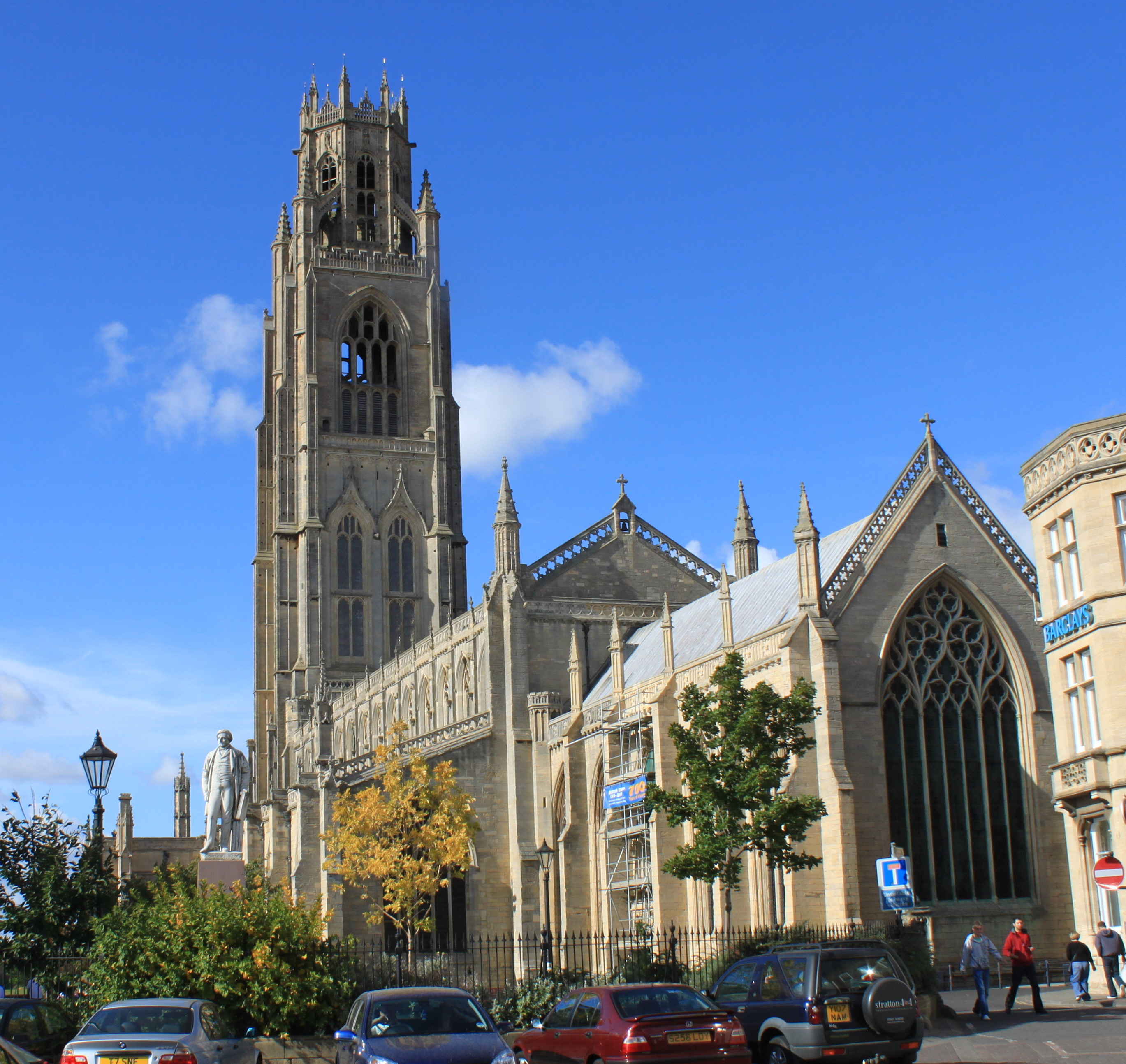 The Stump in Boston, Lincolnshire, with the statue of Herbert Ingram in the left foreground.